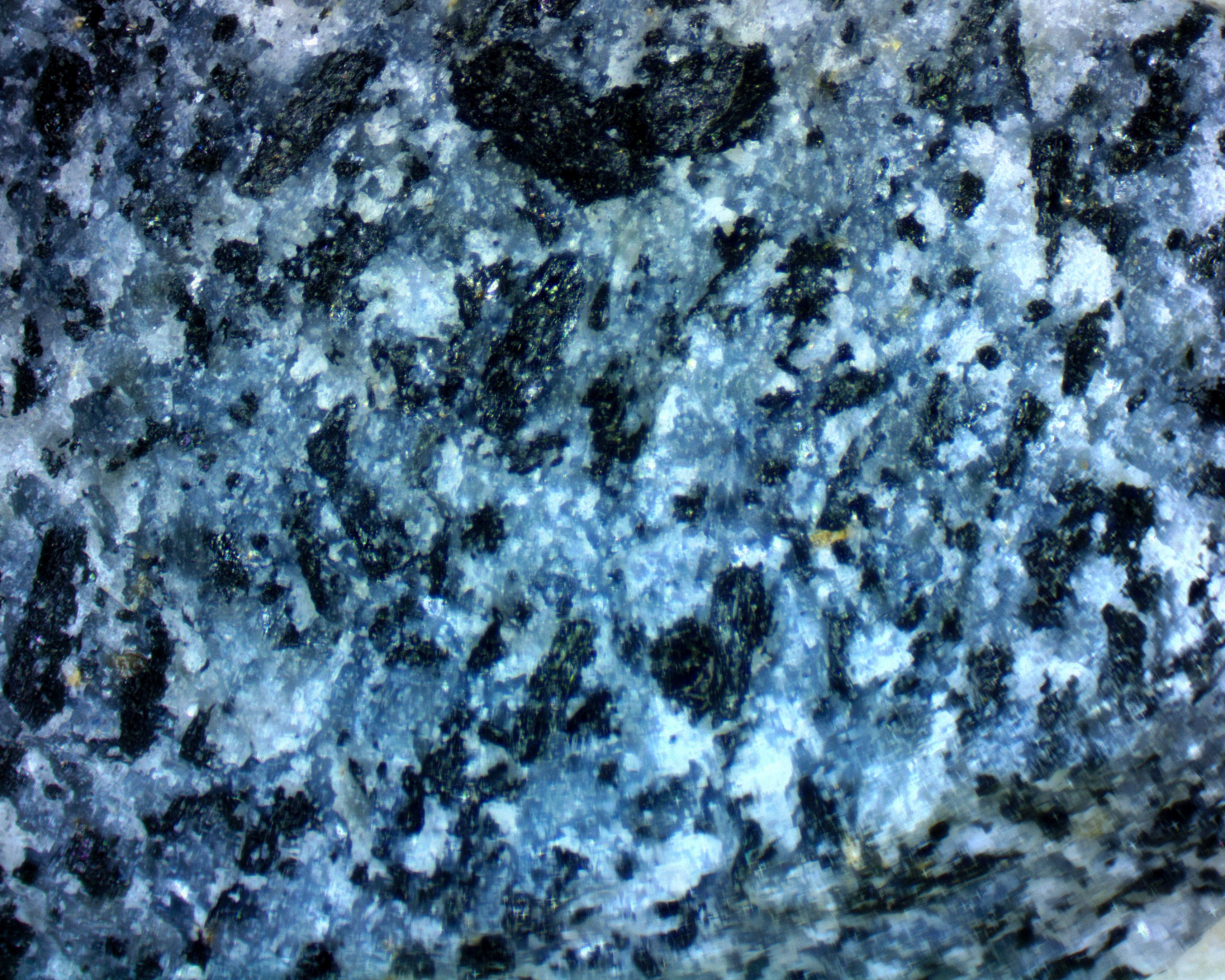 Diorite 01 10x Photomicrograph From personal collection 18010166DioriteB